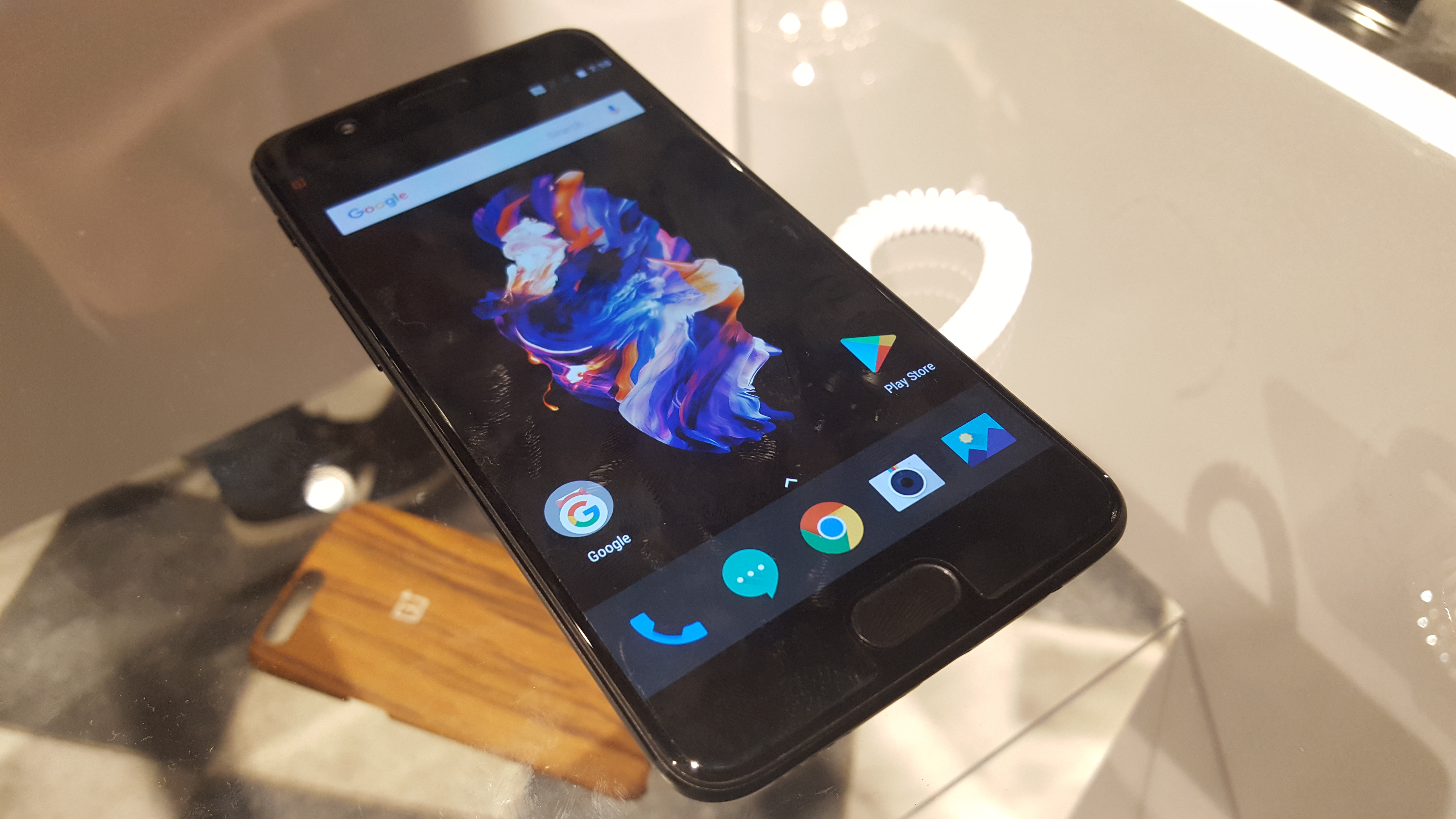 One of the first Oneplus 5's on display at a London popup shop on launch day - in Modern Society, E2 7DJ